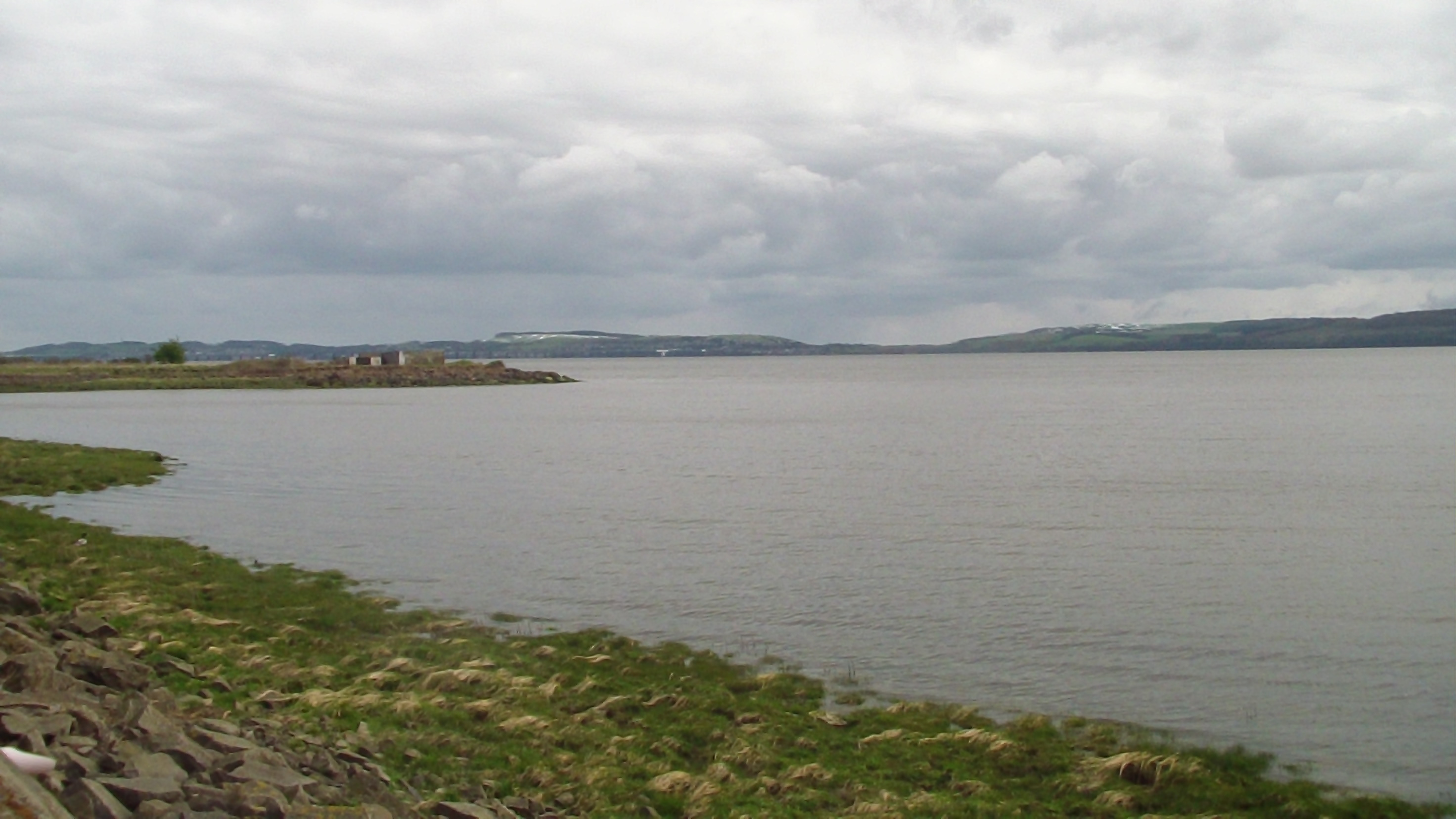 The Kingoodie Bay on April 4, 2012.